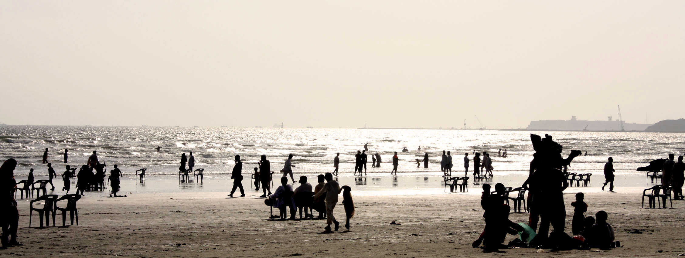 added a warming filer and adjusted contrast.